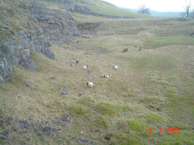 Disused quarry at Newby Cote. Filled with a strange hybrid goat/sheep.